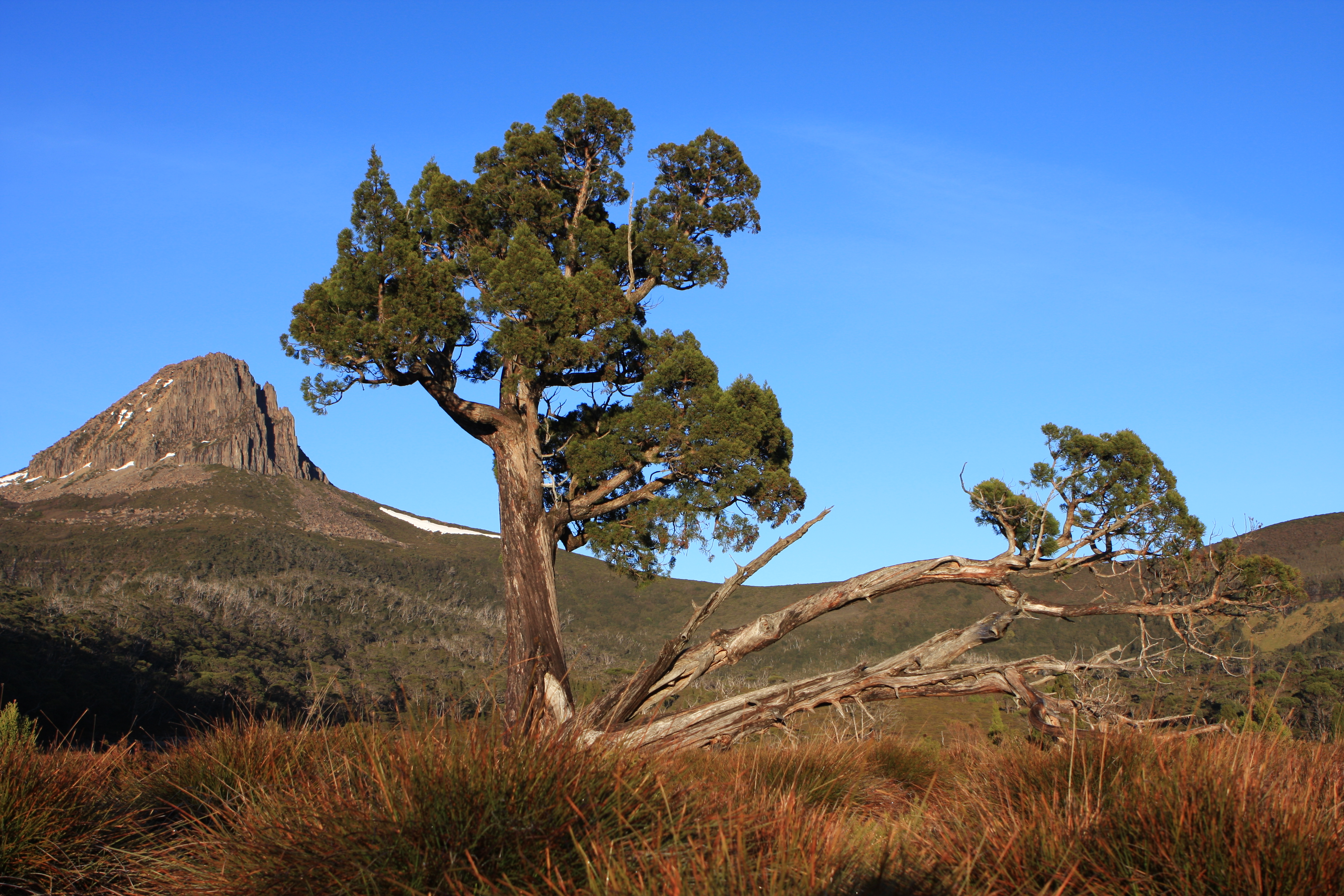 Athrotaxis cupressoides. Near Barn Bluff, Cradle Mountain-Lake St Clair National Park, Central Highlands of Tasmania.